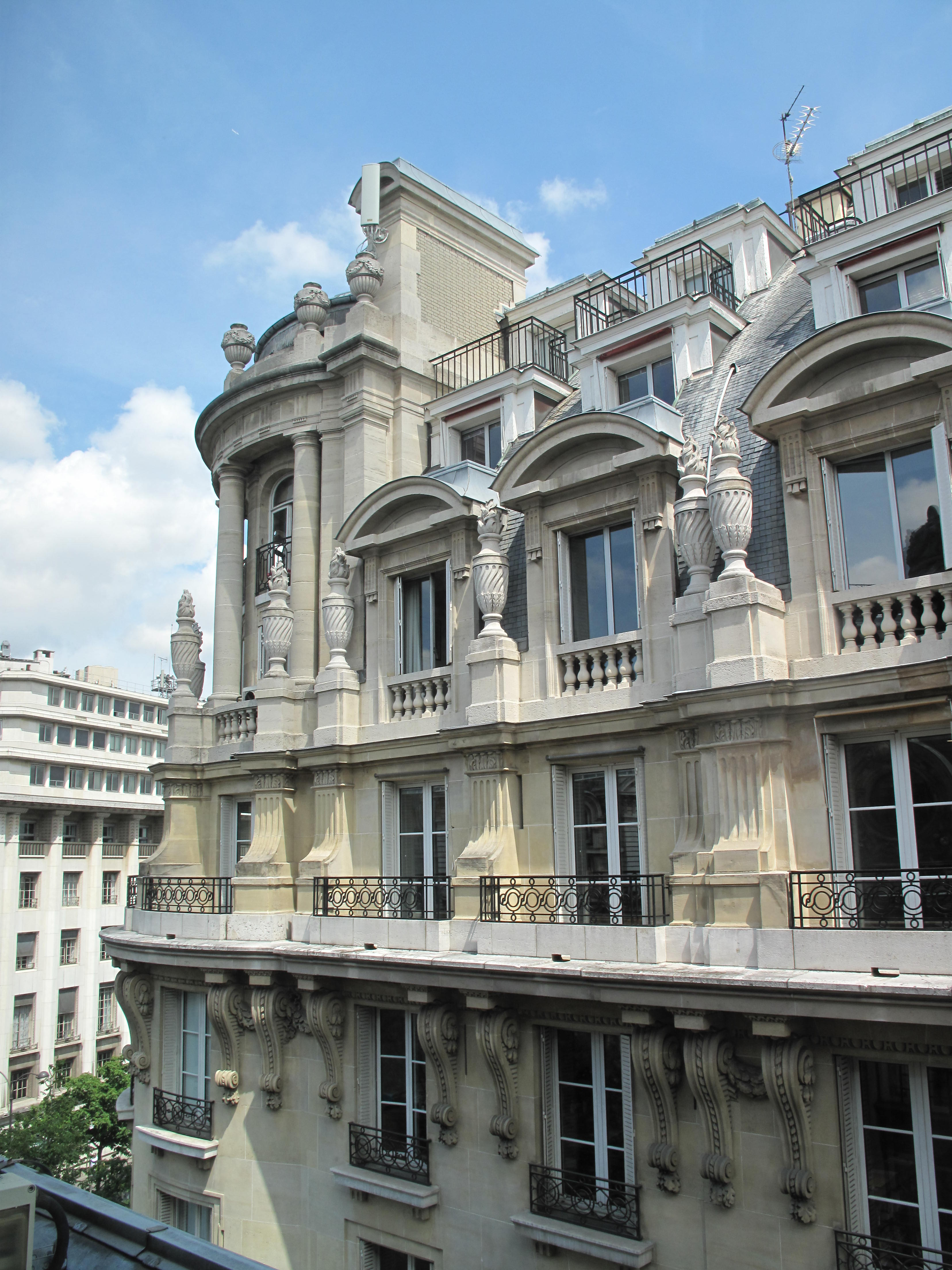 Building in style Art Nouveau at the corner of Boulevard des Italiens and the rue de Gramont, Paris 2nd arr.